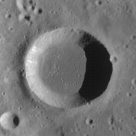 Lunar crater Sosigenes (diameter is 17.0 km). Photo by Lunar Reconnaissance Orbiter, made with Wide Angle Camera 3 December 2011 from altitude 38,2 km on wavelength 643 nm. Sun elevation is 20.59°. Part of the image M177521547CE with increased brightness. Resolution is 52.22 m/pixel, width of the photo is 24.8 km.